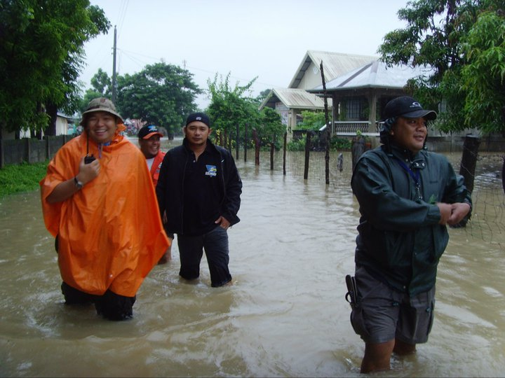 tropical storm falcon hits Paniqui, Tarlac June 26 2011